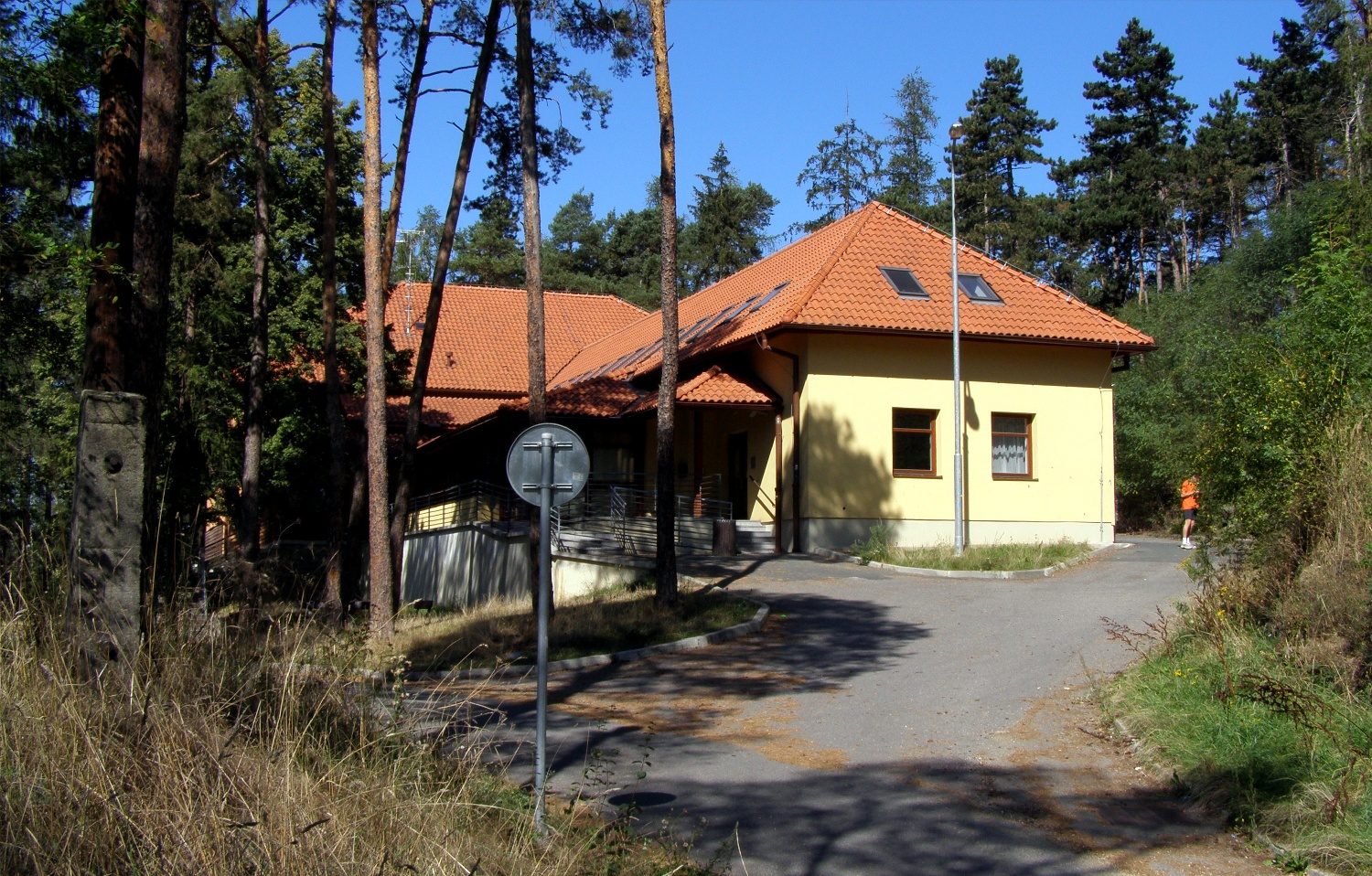 Třebíč-Nové Dvory. Hájek. Hájek Club